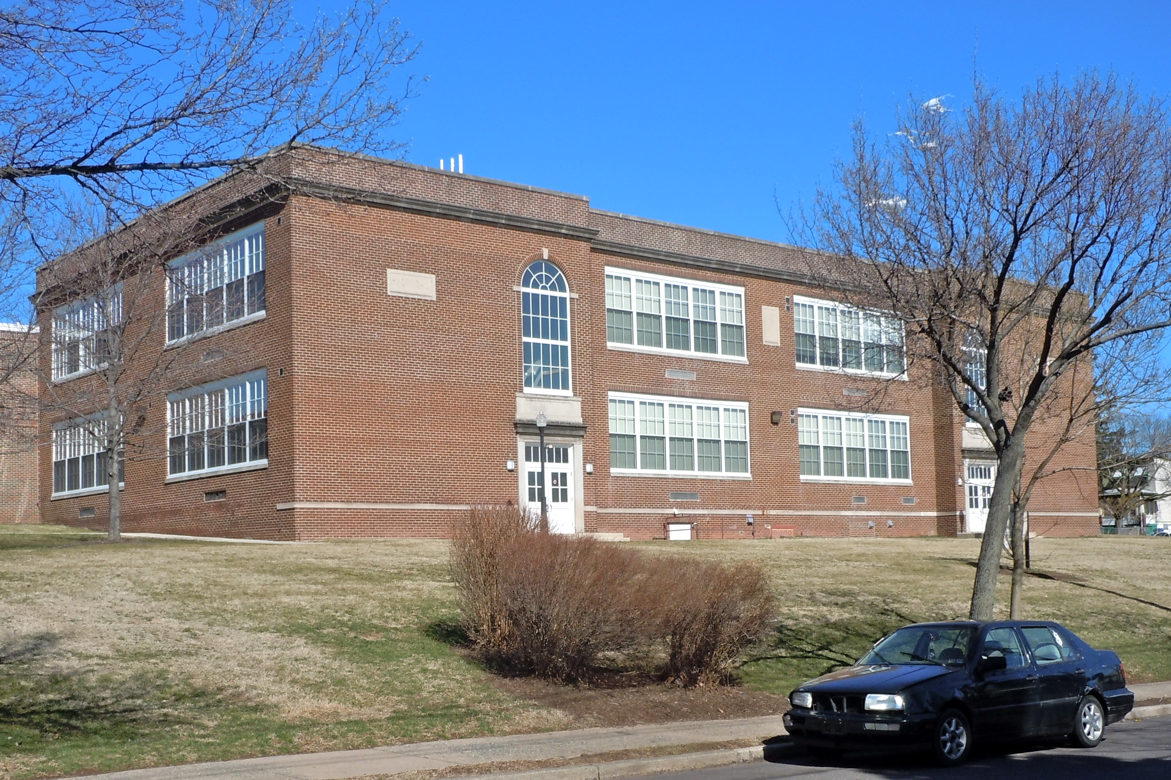 Jefferson Elementary School (now condos) on the NRHP since September 30, 2003. At Beech and Warren Streets, Pottstown, Pennsylvania.